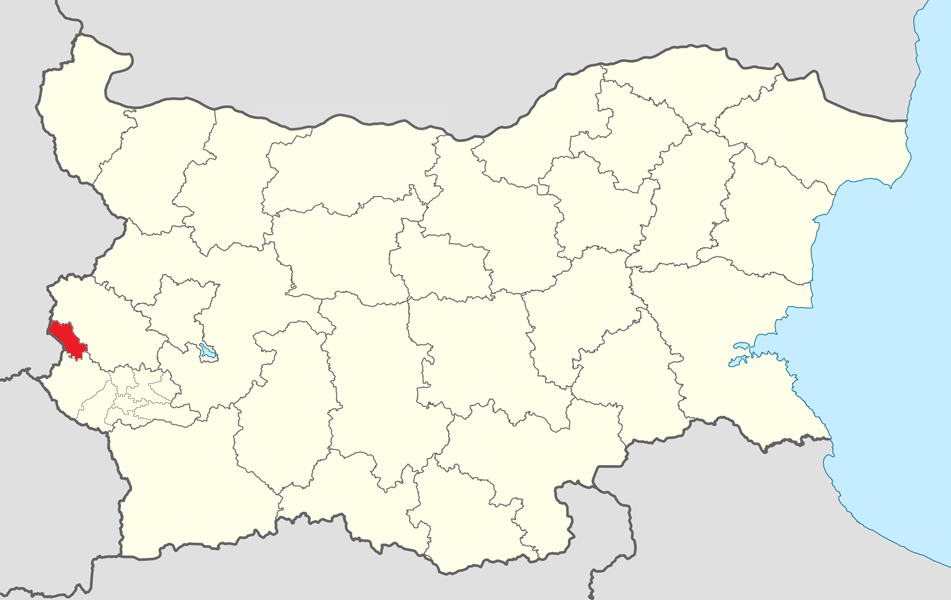 Location map of Treklyano Municipality within Bulgaria and Kyustendil province